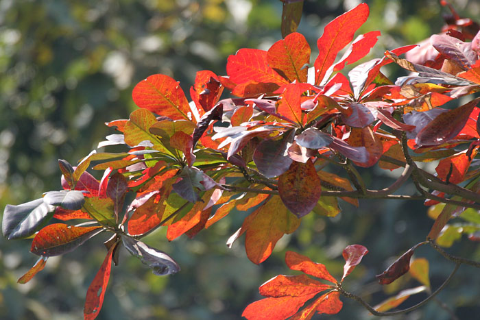 Desi Badam Terminalia catappa in Kolkata, West Bengal, India.